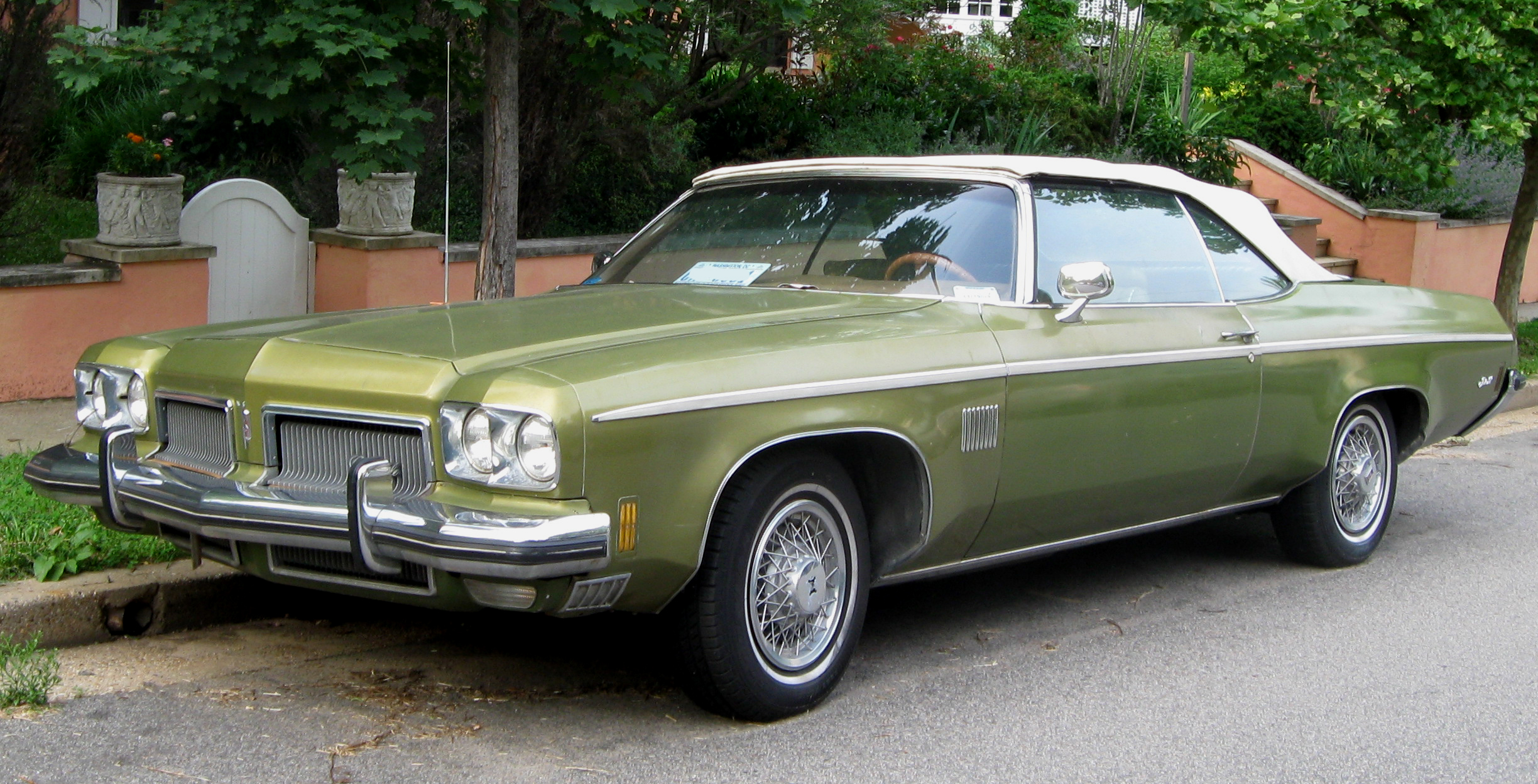 1973 Oldsmobile Delta 88 photographed in Washington, D.C., USA.